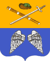 Mikhailov, coat of arms since 1779